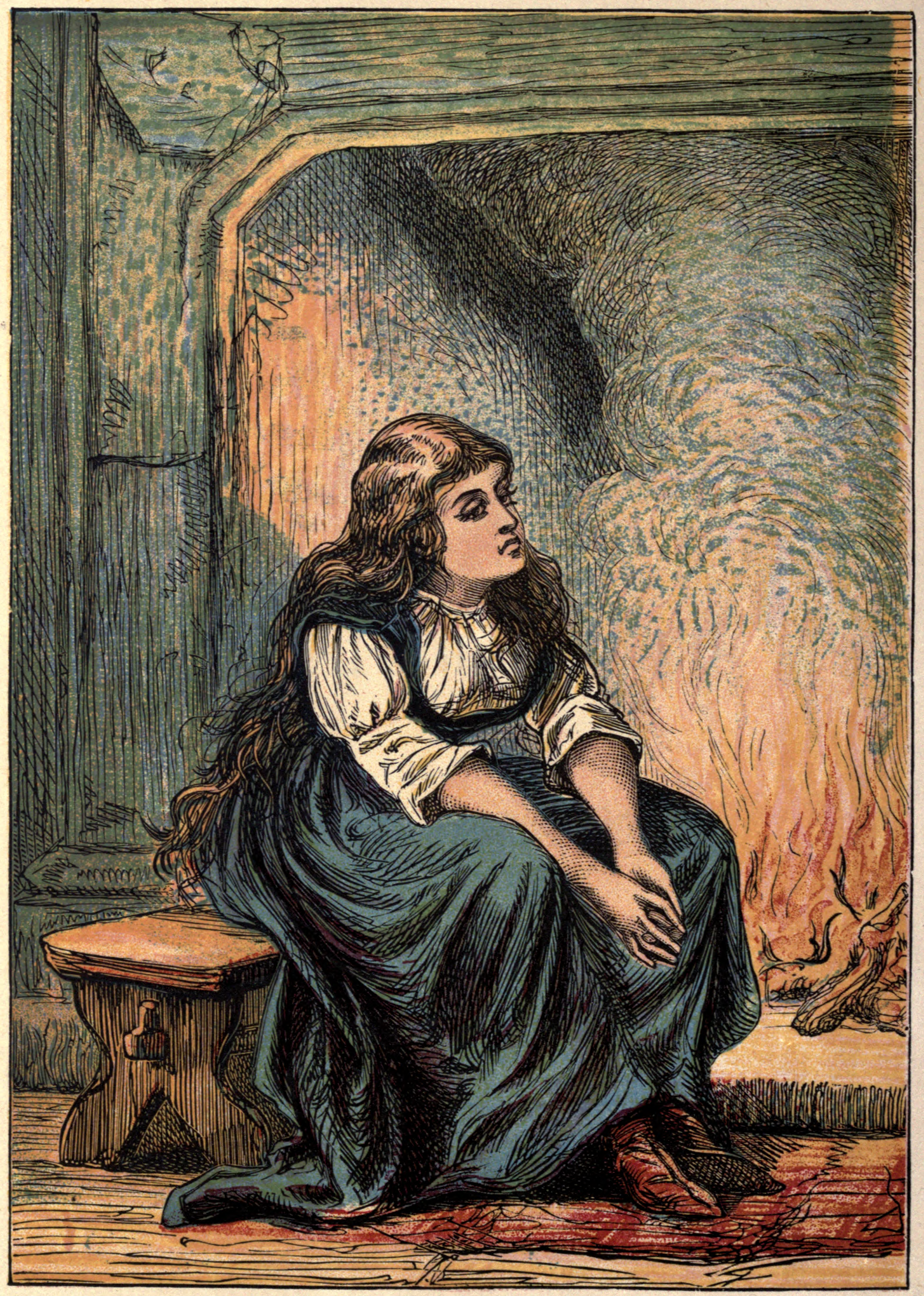 The first illustration of the 1865 edition of Cinderella. It appears on page 2.